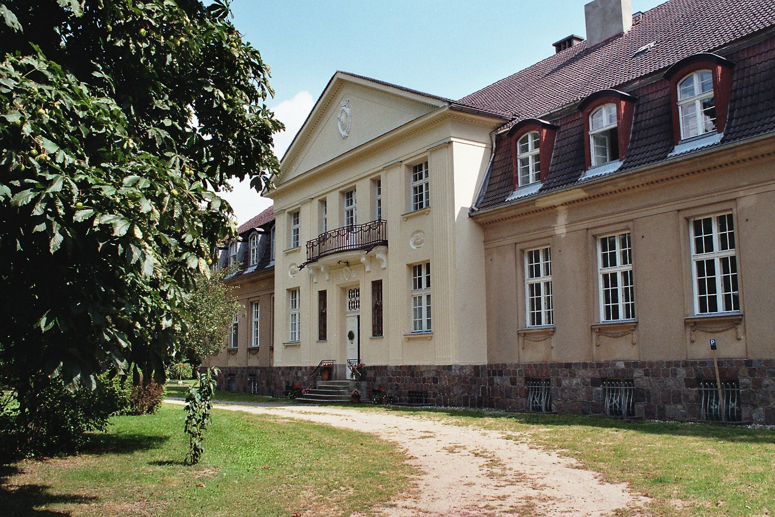 Gevezin, Gutshaus, Hofstraße 9 - Denkmalliste Nr.6; hier befand sich bis 2013 das Indianermuseum Gevezin This is a photograph of an architectural monument.